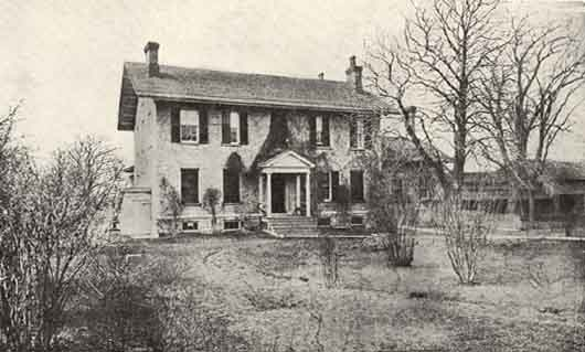 Residence of Gen. Peter B. Porter, overlooking the Niagara River, near Ferry Street. Built 1816. For many years the residence of the Hon. Lewis F. Allen, and for a short time of his nephew, Grover Cleveland. Torn down 1911.